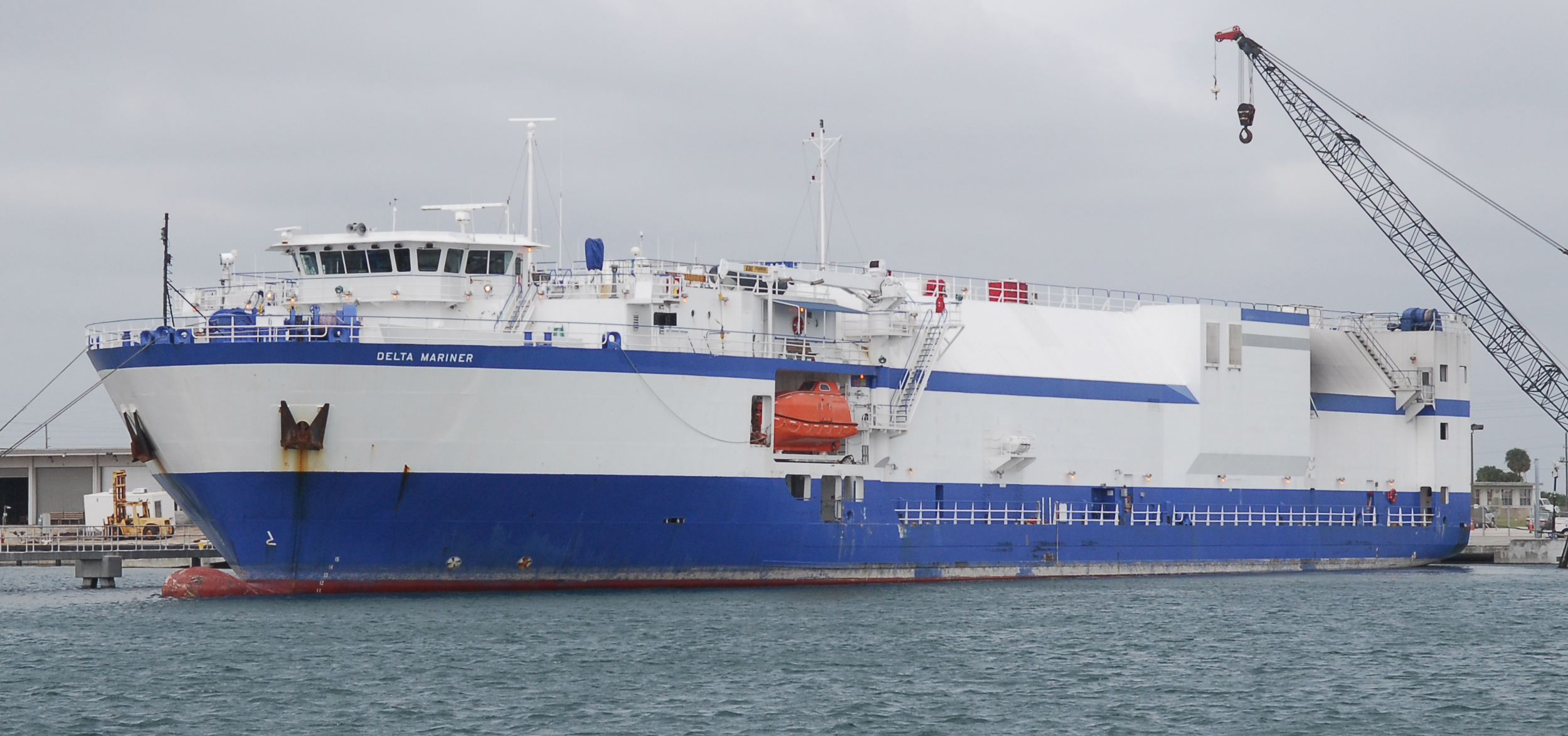 The MV Delta Mariner is docked at Port Canaveral, Fla., with its cargo of the Ares I-X upper stage simulator segments. The cranes near the ship will be used to remove the segments and place them on a flatbed truck for transportation to the Vehicle Assembly Building's high bay 4 at NASA's Kennedy Space Center in Florida. The upper stage simulator will be used in the test flight identified as Ares I-X in 2009. The segments will simulate the mass and the outer mold line and will be more than 100 feet of the total vehicle height of 327 feet. The simulator comprises 11 segments that are approximately 18 feet in diameter. Most of the segments will be approximately 10 feet high, ranging in weight from 18,000 to 60,000 pounds, for a total of approximately 450,000 pounds.